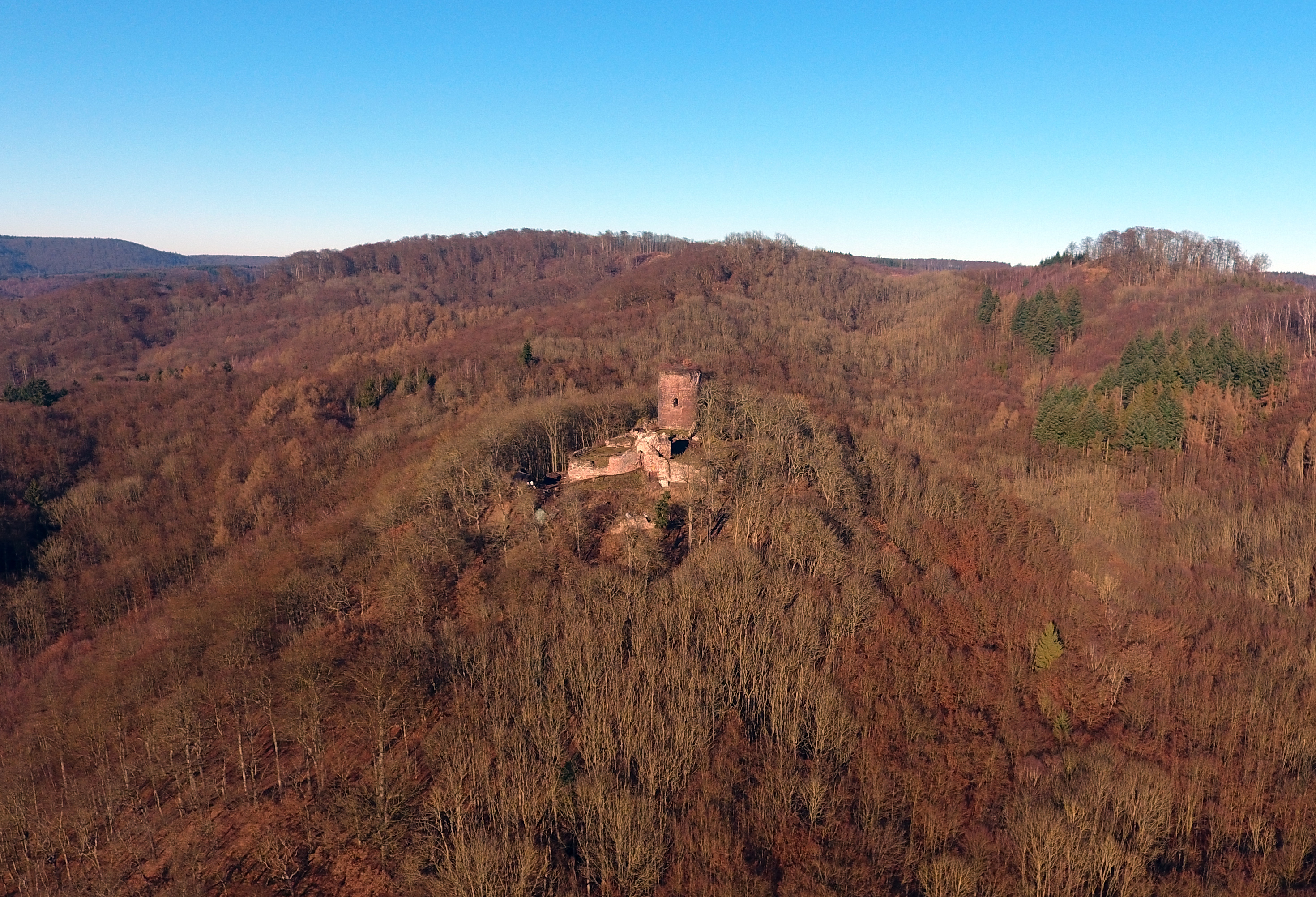 Die Ebersburg im Südharz